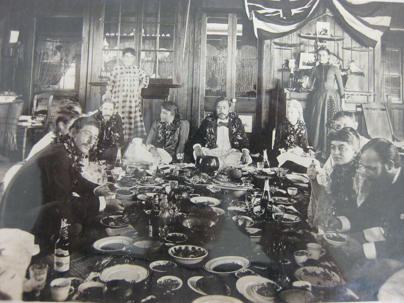 Photograph of Royal Luau thrown by King Kalakaua with Robert Louis Stevenson and Queen Liliuokalani. This photograph was taken at the Henry Poor residence in Waikiki. Others present are Fanny Stevenson, her children Lloyd Osbourne and Isobel Strong, and Stevenson's mother Margaret B. Stevenson.